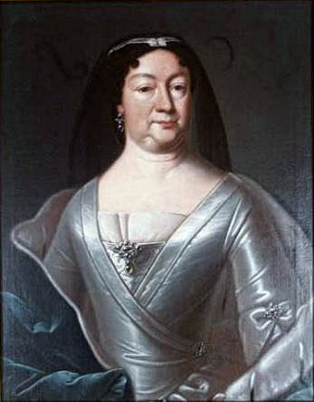 Countess Sophia Albertine of Erbach-Erbach (1683-1742), Duchess of Saxe-Hildburghausen